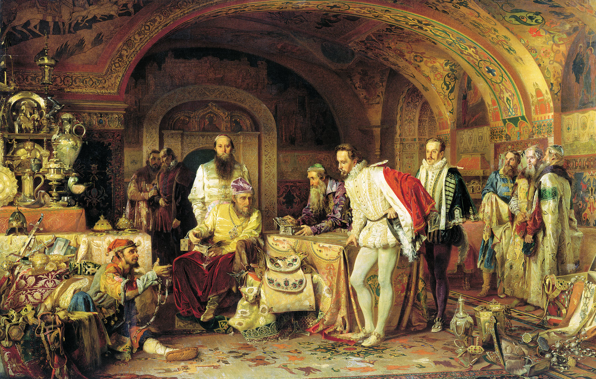 Ivan IV of Russia ("Ivan the Terrible") demonstrates his treasures to the ambassador of Queen Elizabeth I of England